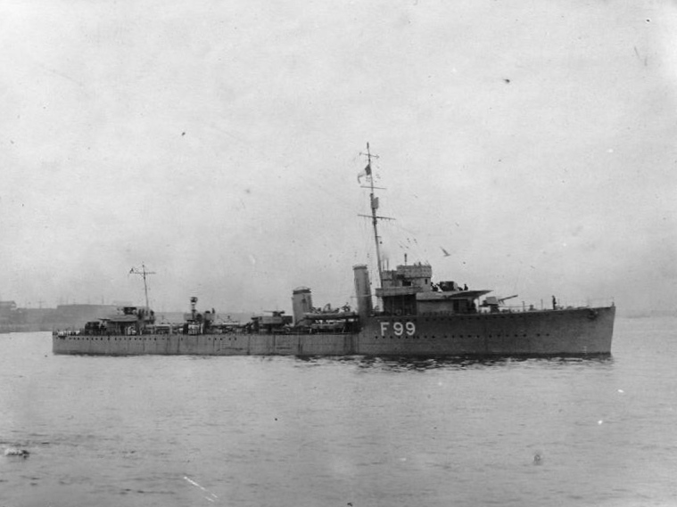 Photograph of British V class cdestroyer flotilla leader HMS Valentine.